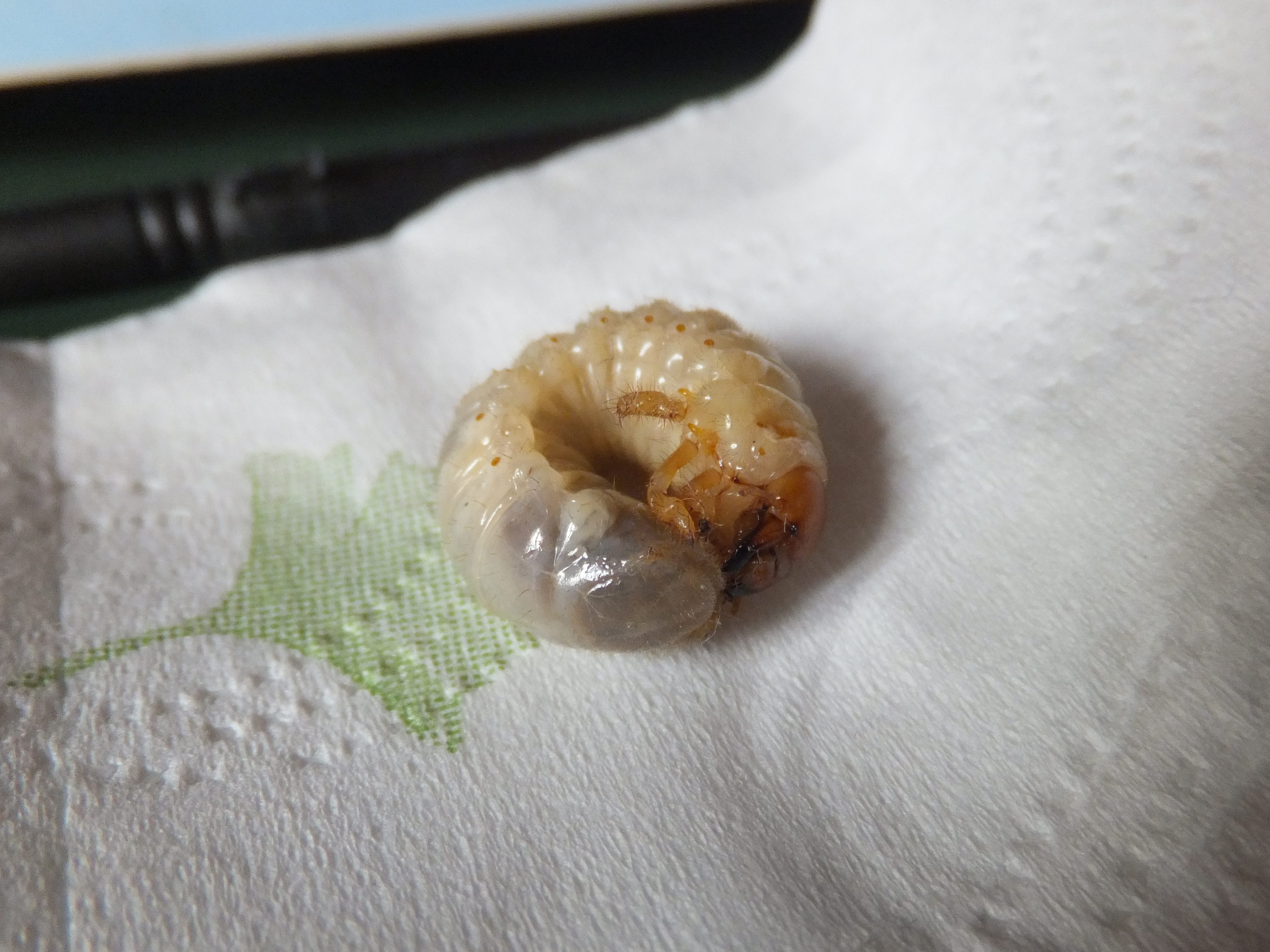 Larva of Pentodon bidens punctatus (or, less probably, of Oryctes nasicornis)